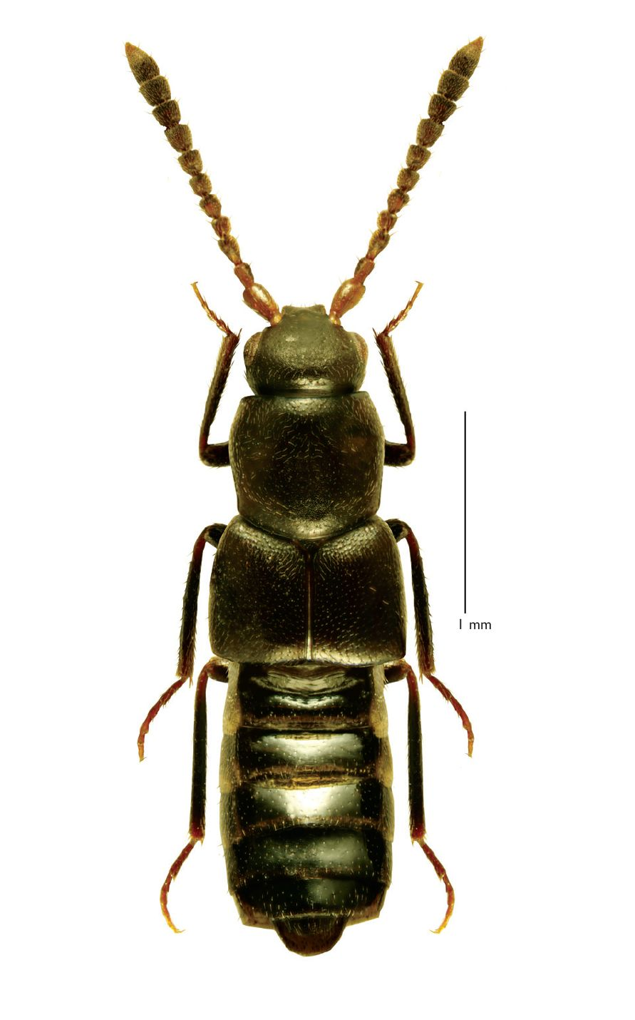 Dorsal view of Pella glooscapi.